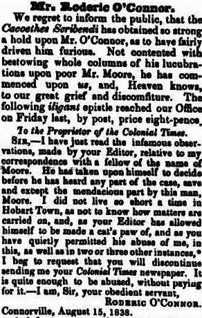 Roderic O'Connor's letter to Colonial Times